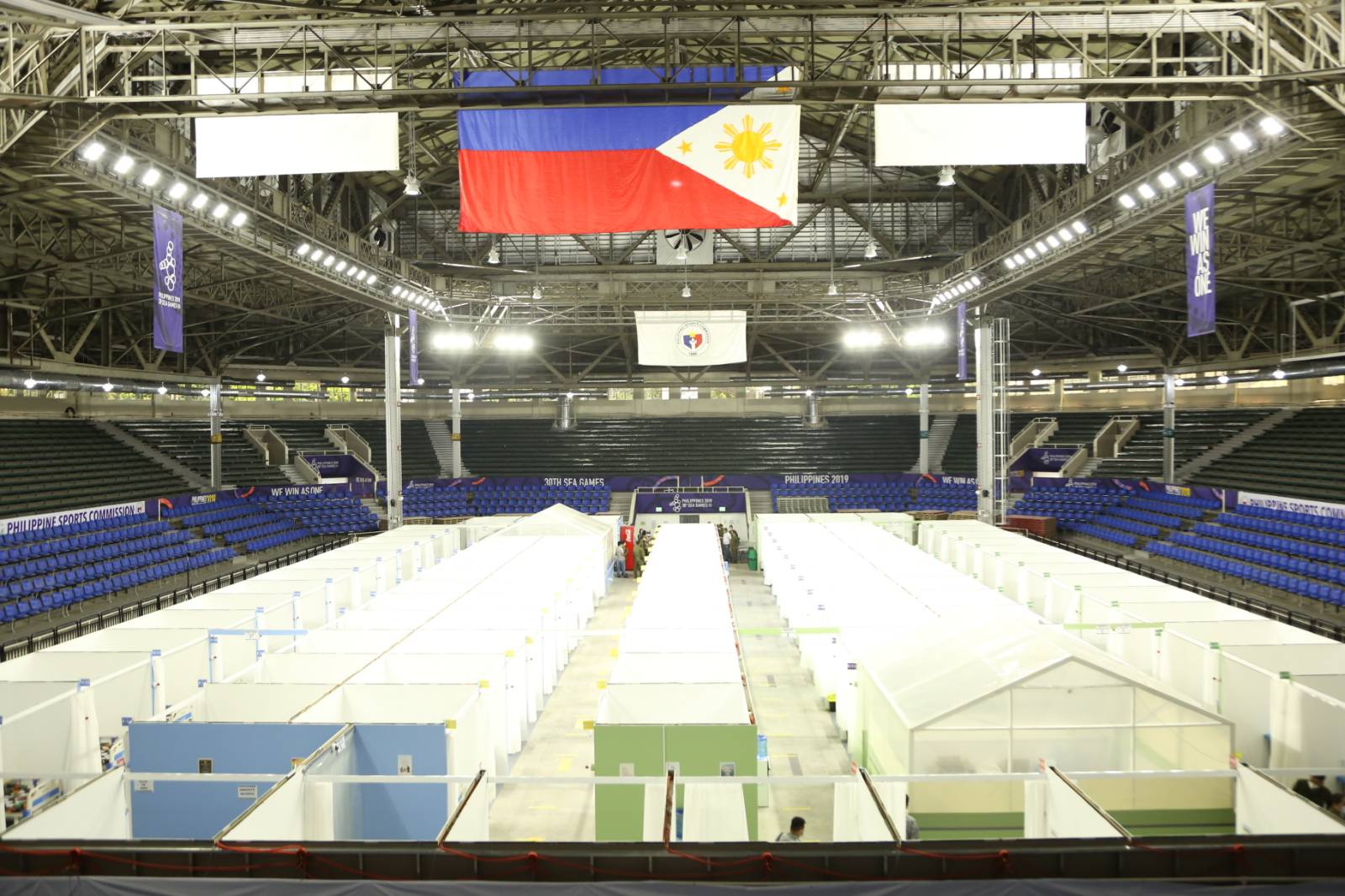 The 100-bed facility Task Group-Rizal Memorial Coliseum (RMC) COVID19 Quarantine Facility in Malate Manila opens on Monday for suspected COVID-19 patients. (Photo courtesy of AFP)